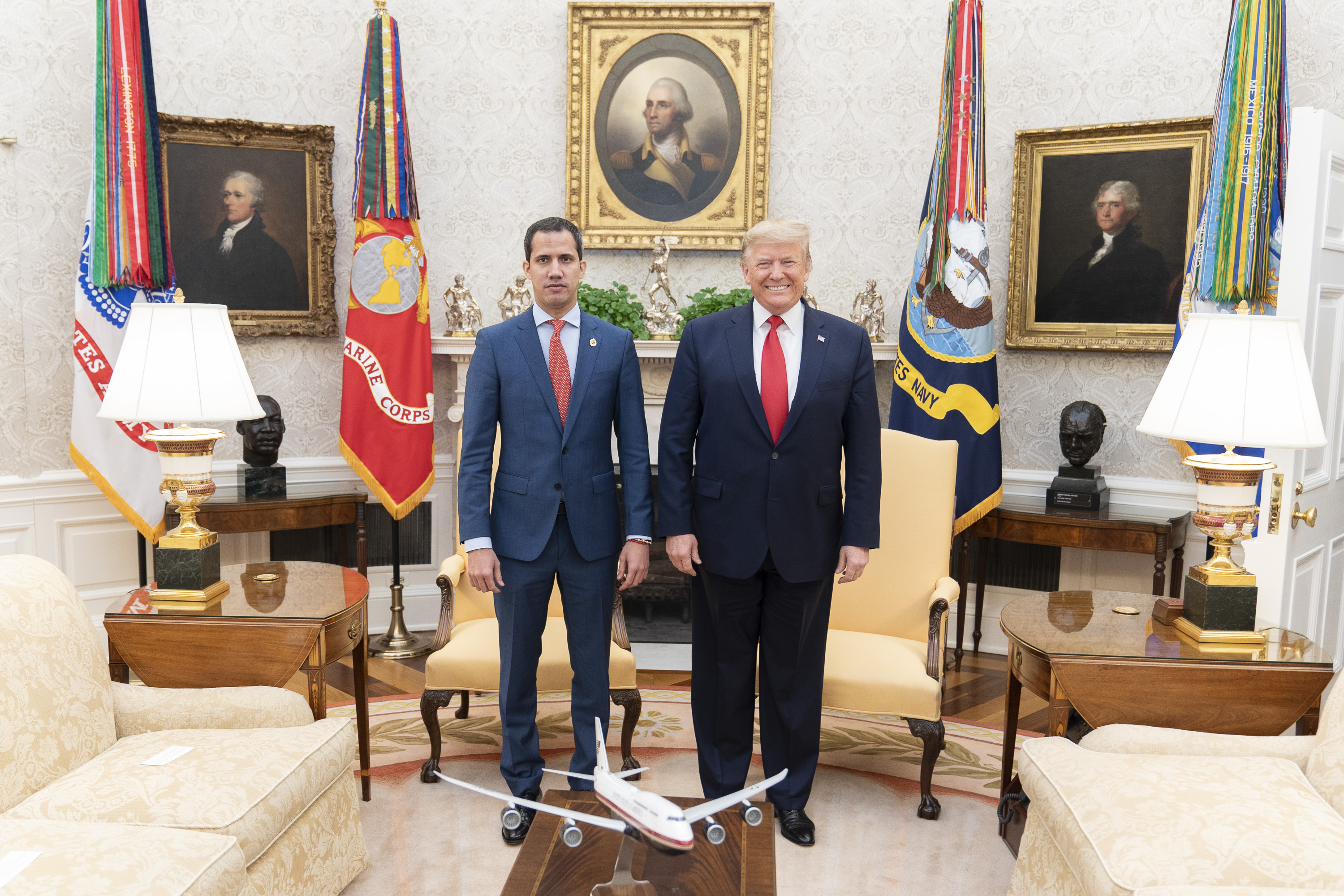 President Donald J. Trump meets with Interim President of the Bolivarian Republic of Venezuela Juan Guaido Wednesday, Feb. 5, 2020, in the Oval Office of the White House. (Official White House Photo by Shealah Craighead)